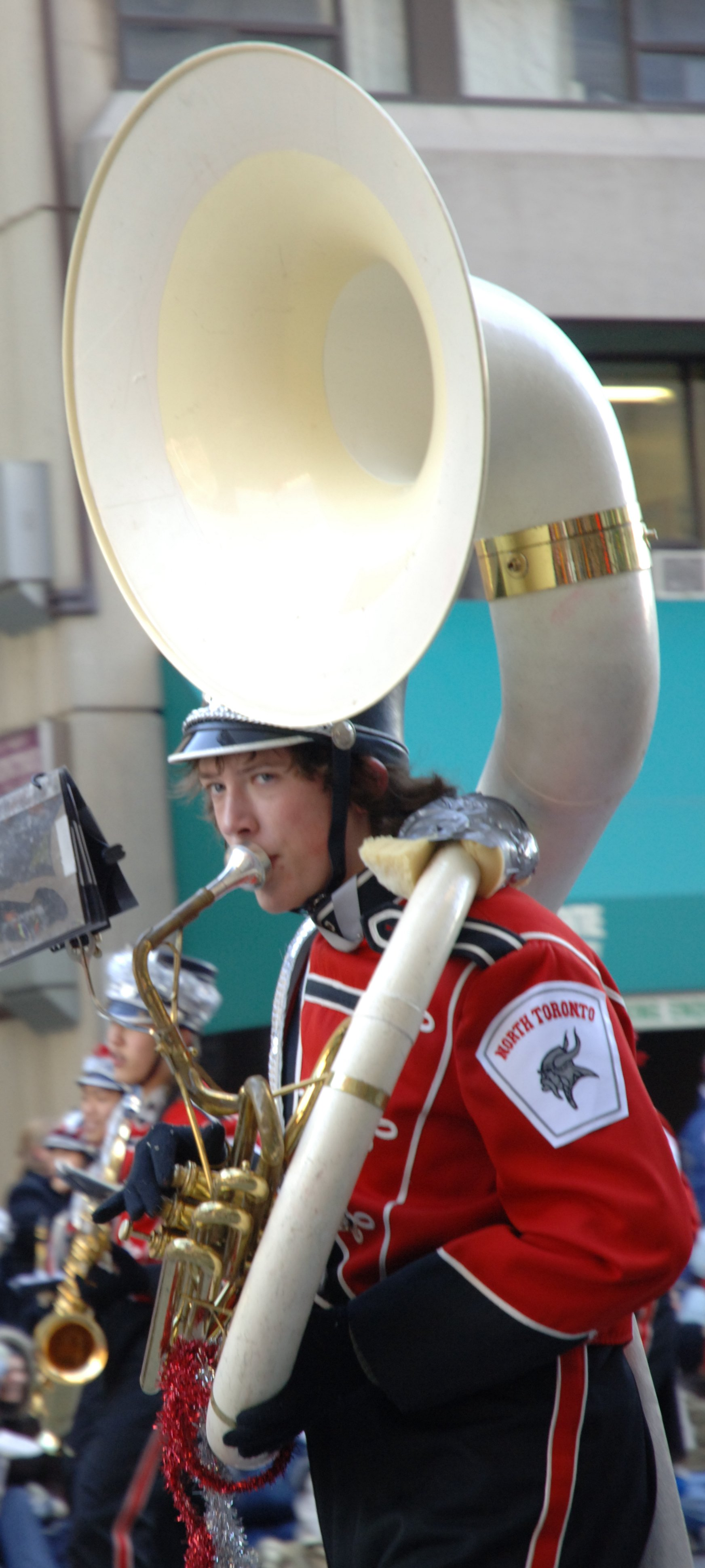 Picture of Colin Gibson, playing the Sousaphone(wearable tuba) in the Santa Claus parade